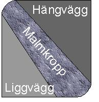 Malmkropp med hängvägg, malmkropp och liggvägg